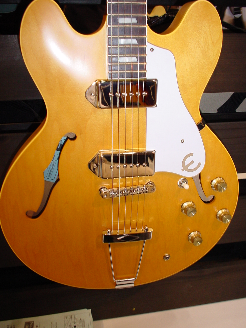 Epiphone Casino Revolution in Instrument Show(2003.10.25 Pacifico Yokohama, Japan) Author: Photo by CasinoKat